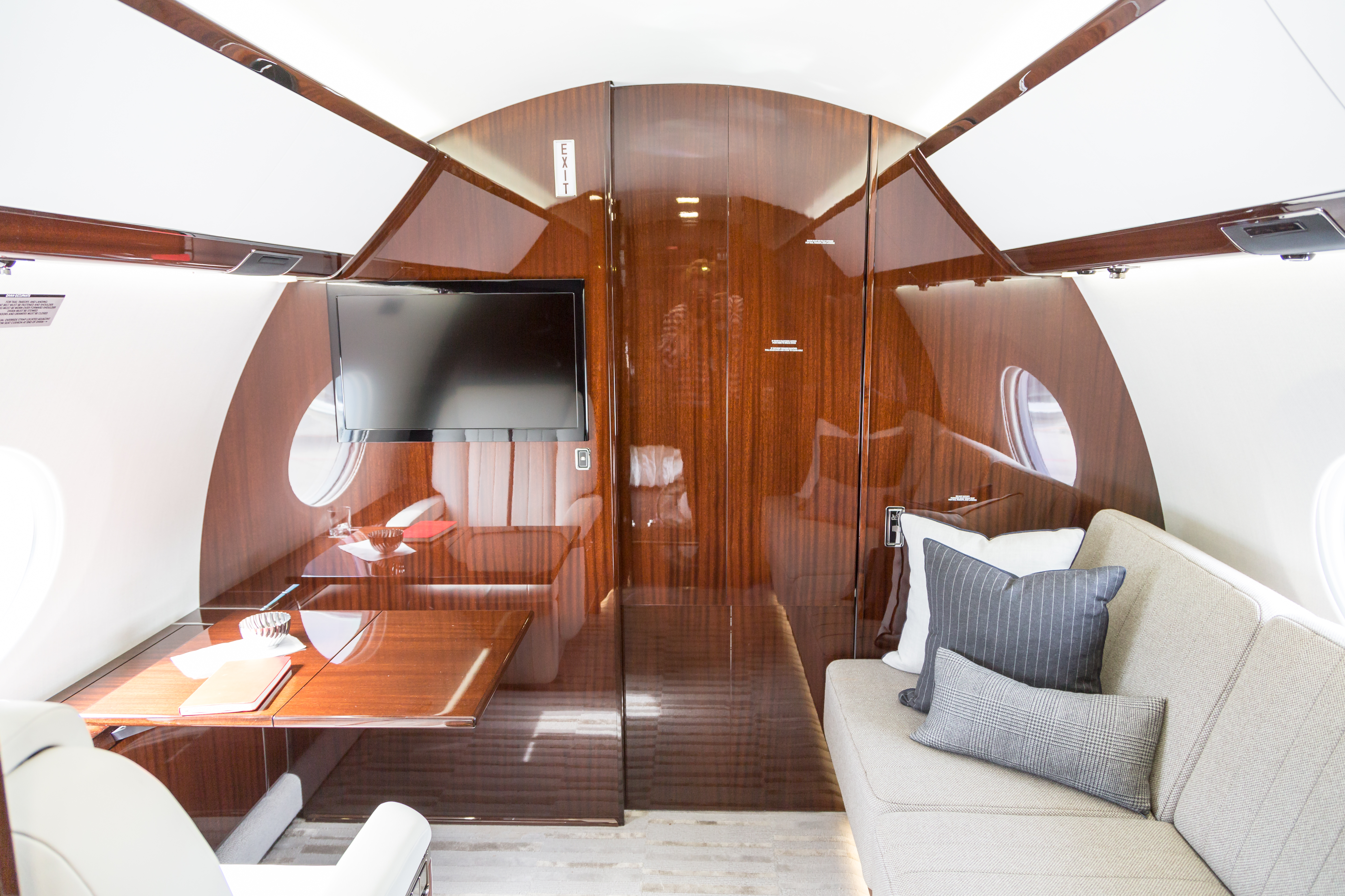 Gulfstream G650ER, EBACE 2018